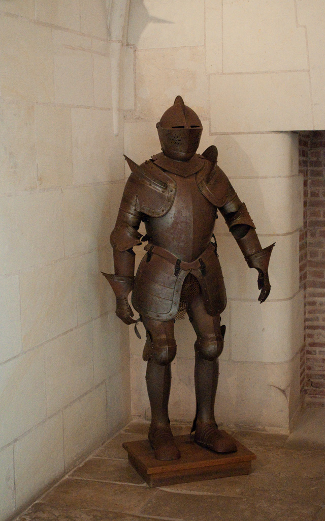 knight-arming, Amboise-castle, France